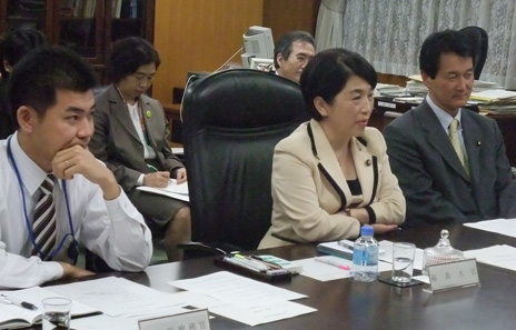 Mizuho Fukushima, Minister of State for Gender Equality, Atsushi Ōshima, Senior Vice-Minister of Cabinet Office, and Kenta Izumi, Parliamentary Secretary of Cabinet Office, attended a meeting about gender equality in Tōkyō Metropolis on December 7, 2009. (For terms of use, see 内閣府ホームページ利用規約 - 内閣府.)